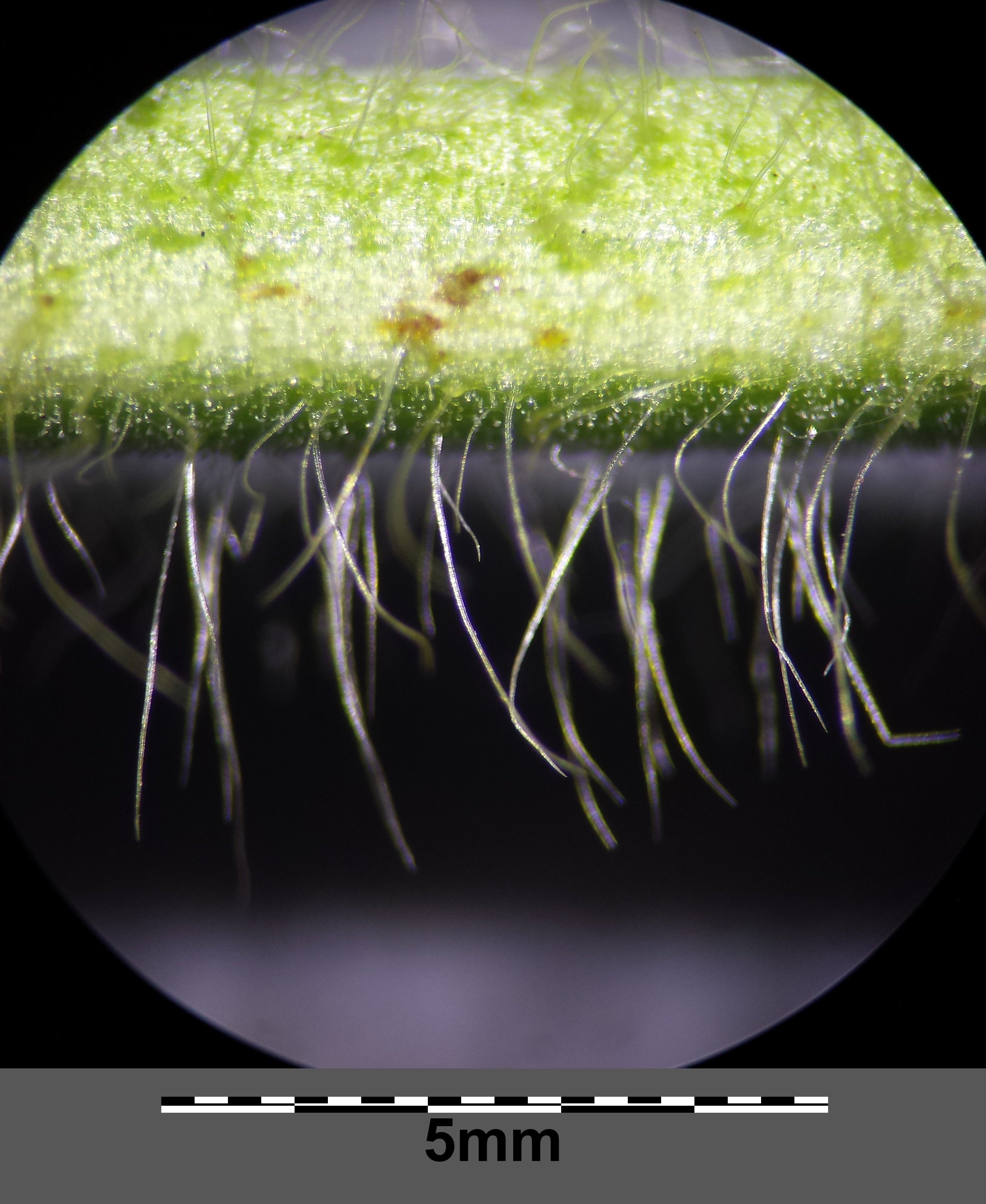 Stem with long hairs and glands Taxonym: Agrimonia procera ss Fischer et al. EfÖLS 2008 ISBN 978-3-85474-187-9 Location: Aspenwald near Zurndorf, district Neusiedl am See, Burgenland, Austria - ca. 130 m a.s.l. Habitat: border of a wood